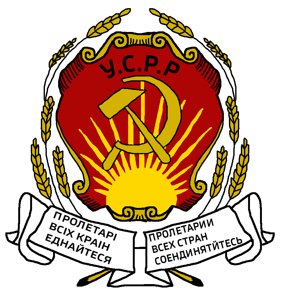 Coat of arms of Ukrainian SSR (1919-1929)